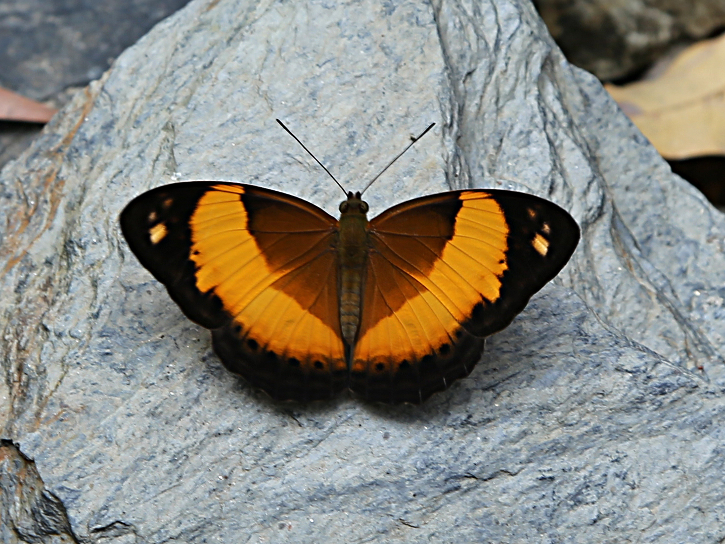 Bordered Rustic at Bloomfield Falls, north Queensland.